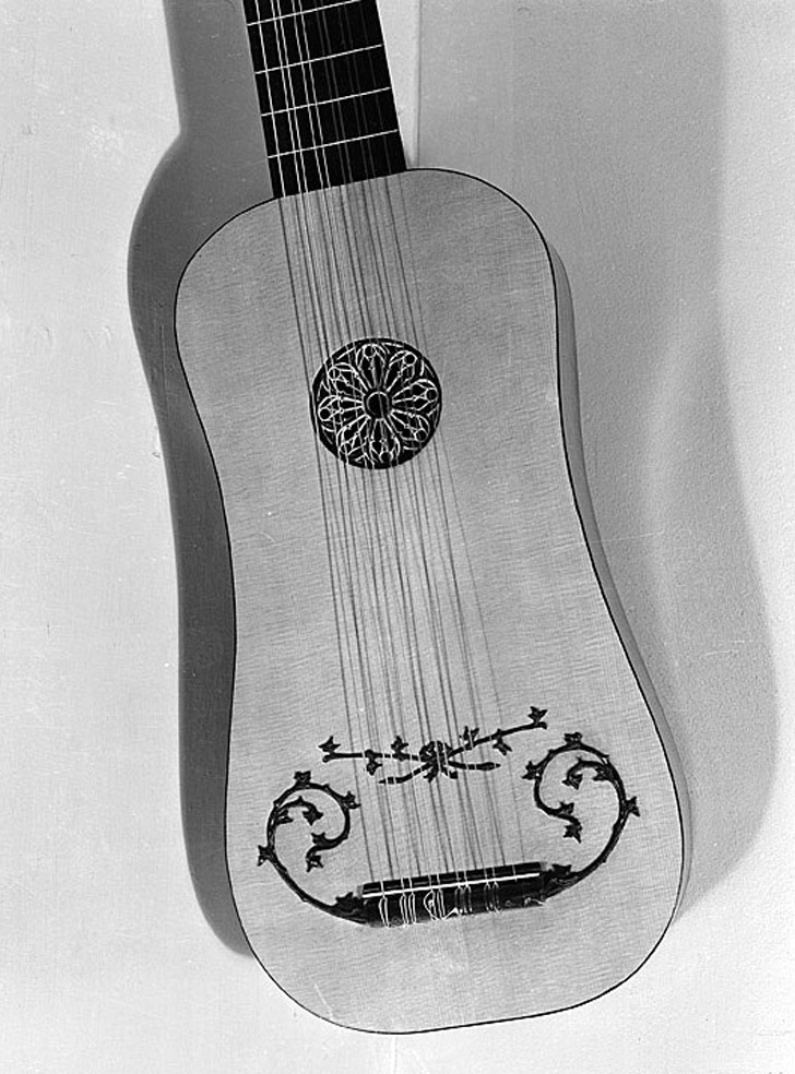 Vihuela built by Kahlil Gibran Further reading Kahlil Gibran - Sculptor About the Artist. . Selected Instruments. Vihuela [built by Kahlil Gibran] (photograph ca.1954). Wiki Photo 5 - Vihuela & Museum of Fine Arts. Boston Program 1954. Wiki Photo, .the external image pages prepared for a Wikipedia article "Kahlil Gibran (sculptor)". Court Music Of The Spanish Renaissance [at the Museum of Fine Arts] (1954 concert program). "The vihuela (Spanish lute) used in this concert was made by Kahil Gibran."